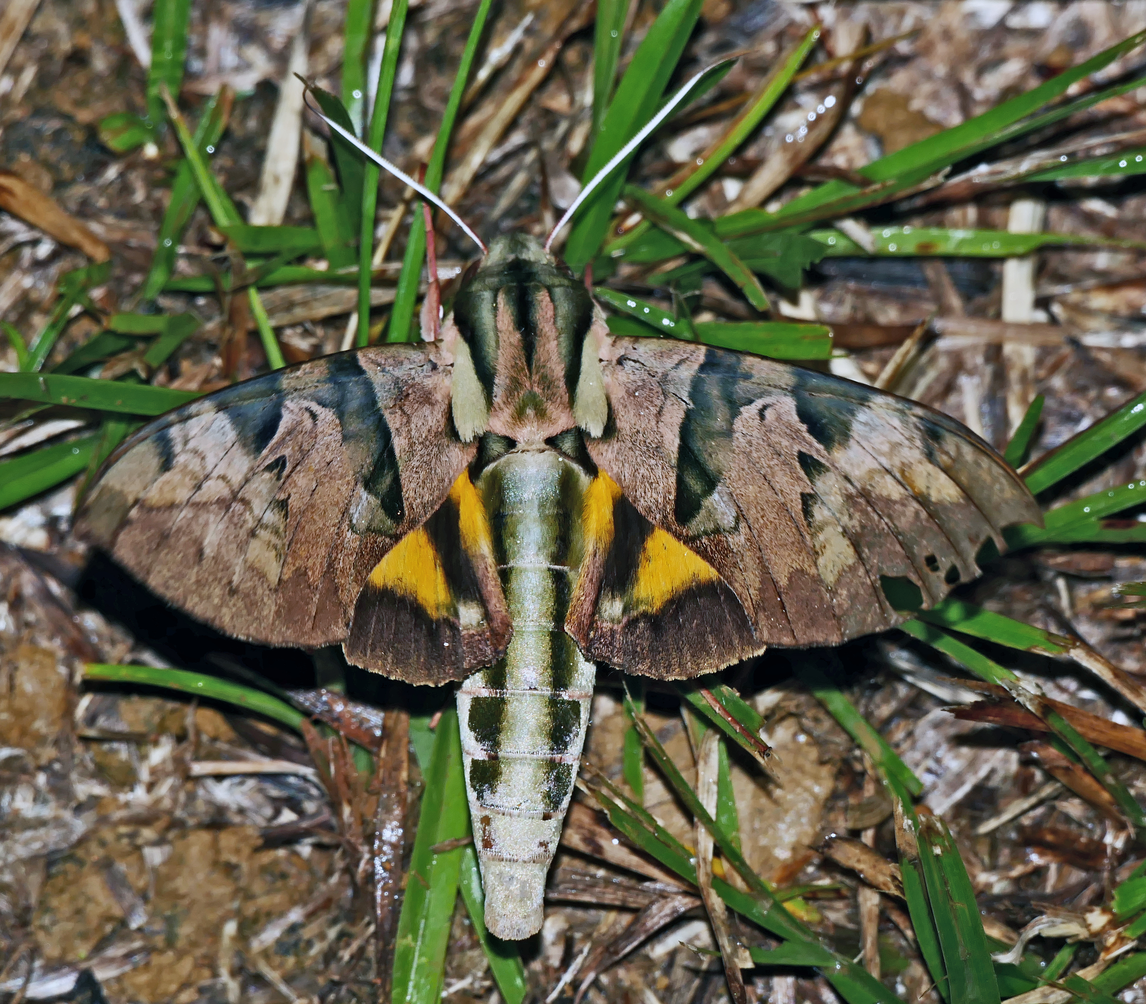 PK48, D6 Route de Kaw, Roura, French Guyana, FRANCE